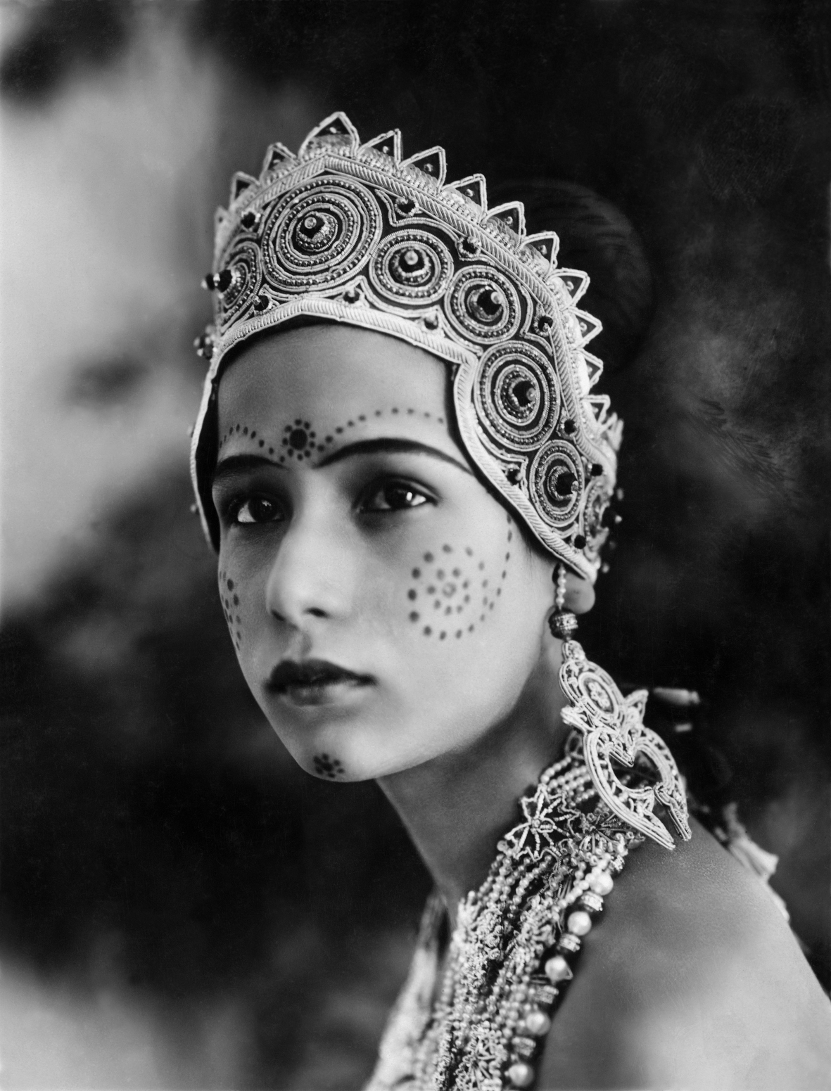 Seeta Devi as Gopa in a scene from the film, Prem Sanyas (The Light of Asia) 1925, directed by Franz Osten.